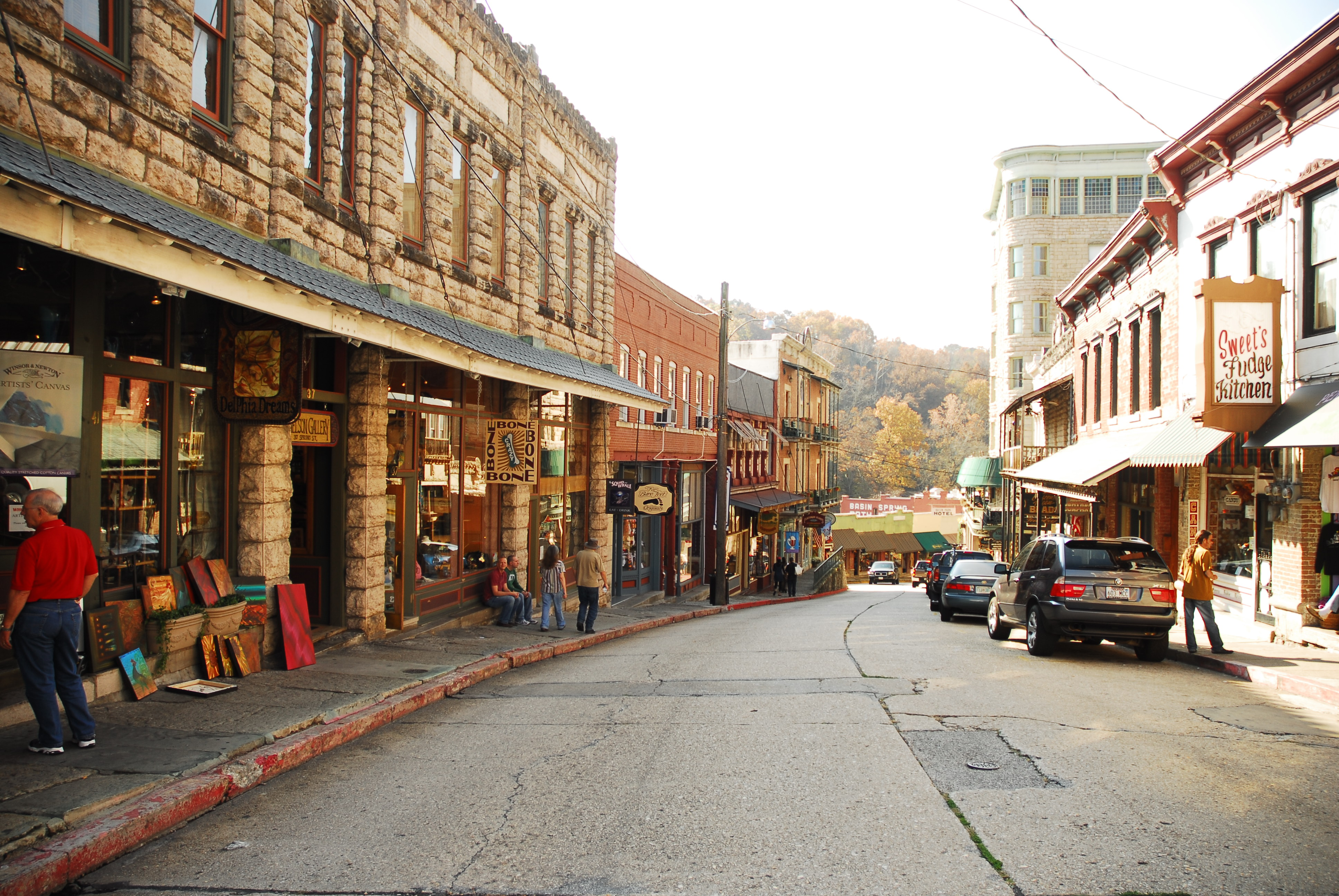 Looking down Spring Street towards Basin Park